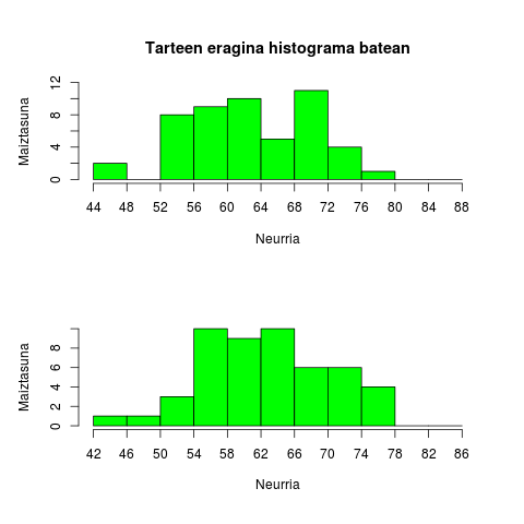 Histograms with different bins for the same data. This chart was created with R. Source code: datuak=round(rnorm(50,64,8),digits=1) datuak [1] 70.8 60.0 74.7 63.2 71.8 64.0 56.0 63.0 65.2 61.6 56.5 58.2 57.2 70.0 70.3 [16] 63.4 70.3 55.0 68.2 55.3 64.8 68.2 53.7 54.1 69.3 47.6 60.7 53.1 63.4 64.1 [31] 54.8 61.4 62.0 65.1 64.4 57.6 68.1 70.0 76.4 71.6 58.3 58.0 72.2 74.3 57.7 [46] 74.4 58.8 52.7 45.9 60.2 tarteak1=c(44,48,52,56,60,64,68,72,76,80,84,88) tarteak2=c(42,46,50,54,58,62,66,70,74,78,82,86) par(mfrow=c(2,1)) par(mar=c(5,4,4,2),oma=c(1,1,1,1)) hist(datuak,main="",breaks=tarteak1,ylim=c(0,12),xlab="Neurria",ylab="Maiztasuna",col=c("green"),xaxt="n") axis(1,at=c(44,48,52,56,60,64,68,72,76,80,84,88)) title("Tarteen eragina histograma batean") hist(datuak,main="",breaks=tarteak2,xlab="Neurria",ylab="Maiztasuna",col=c("green"),xaxt="n") axis(1,at=c(42,46,50,54,58,62,66,70,74,78,82,86)) dev.off